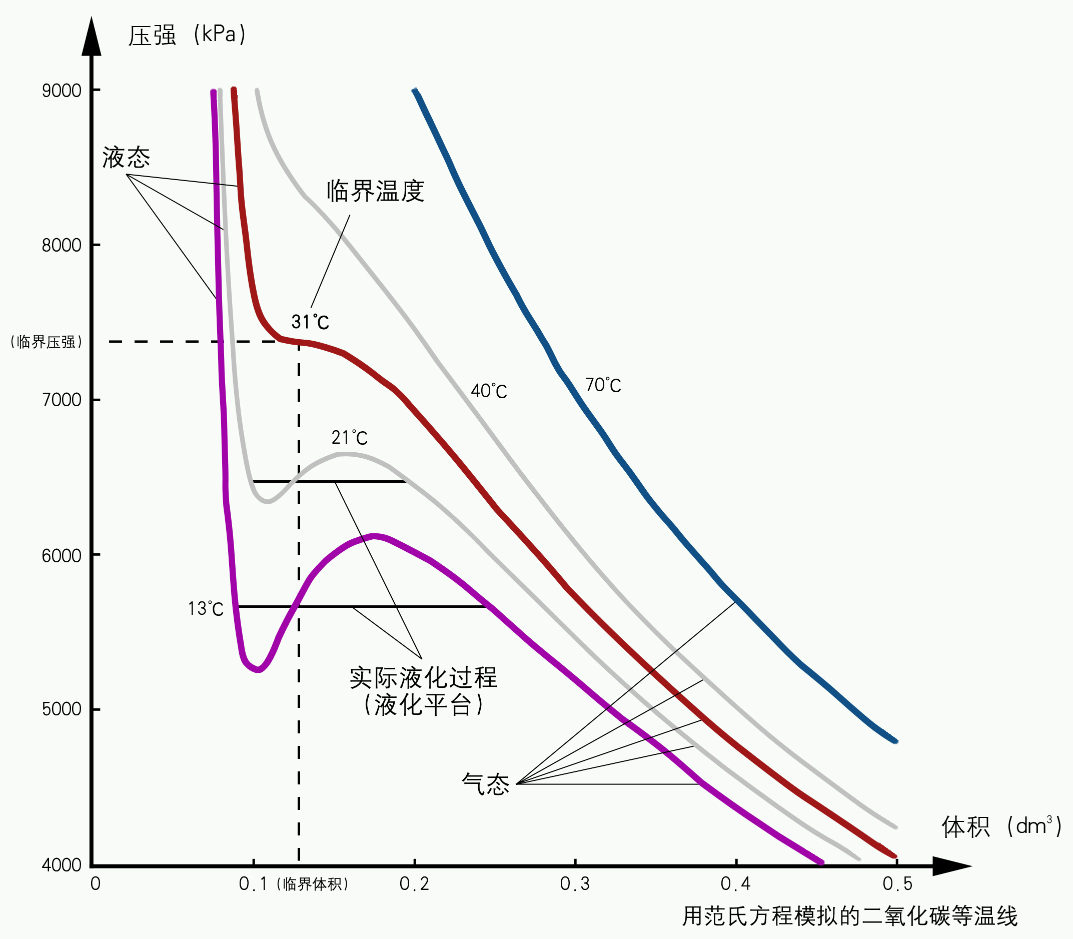 Simulated liquefaction process of carbon dioxide by van der Waals equation.